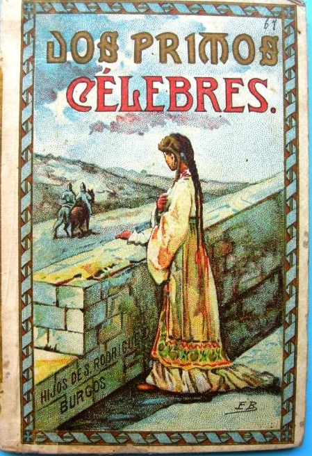 Cover of the book Dos primos célebres